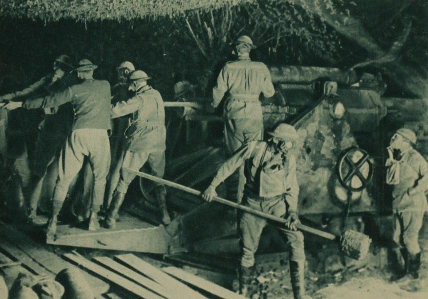 This is part of the set of photographs taken by Frank Hurley, showing the 2nd Australian Siege Battery in action with a 9.2 inch Howitzer. Place made: Western Front (Belgium), Ypres Area Voormezeele See also : Image:FrankHurleyAustralian9.2inchHowitzerGunnersInGasMasks.jpg